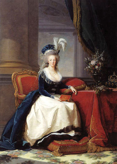 Marie Antoinette in blue coat and white dress holding a book (Élisabeth Vigée-Lebrun)